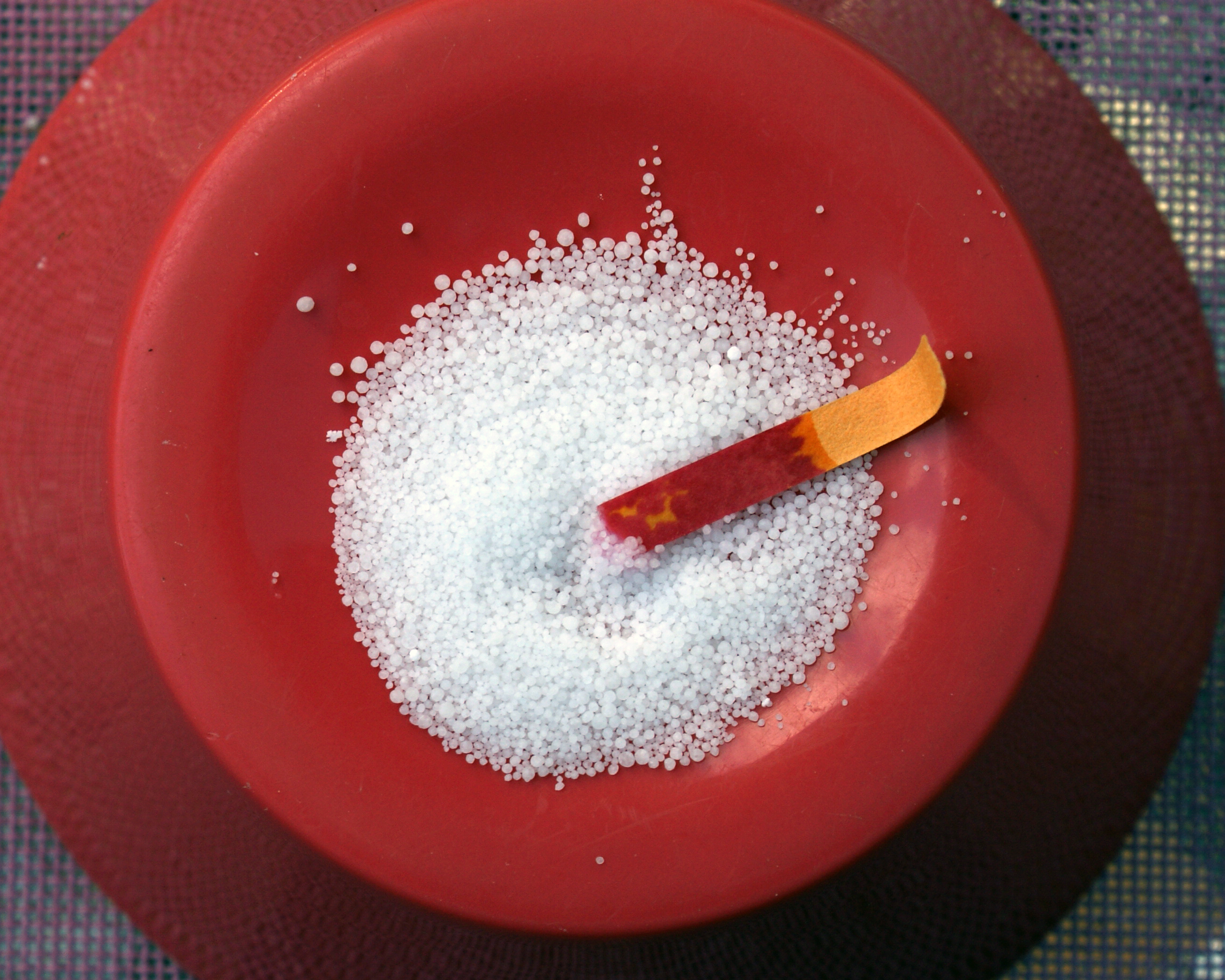 Sodium Bisulfate with PHydrion paper